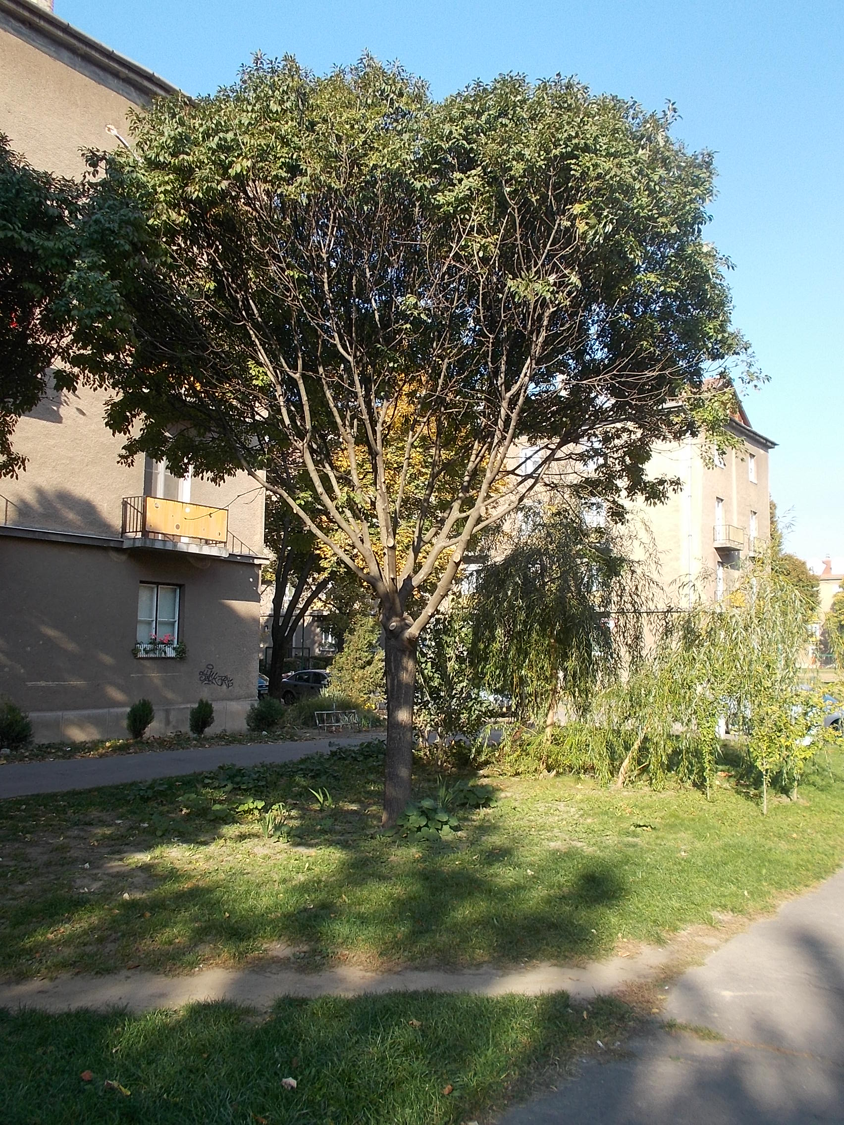 Tree in Technikum neighborhood, Dunaújváros, Fejér County, Hungary.